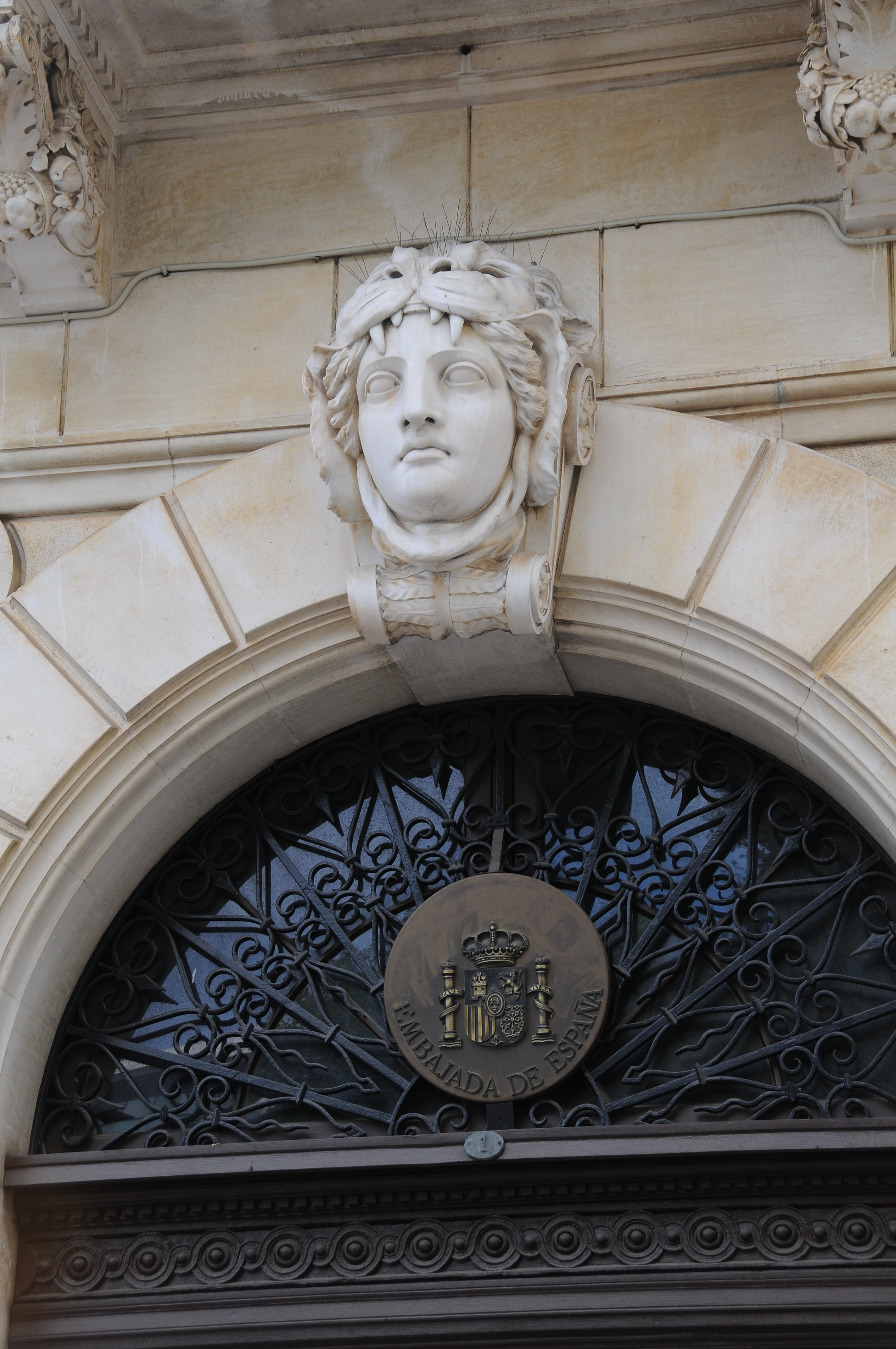 Avenida da Liberdade, Lisbon